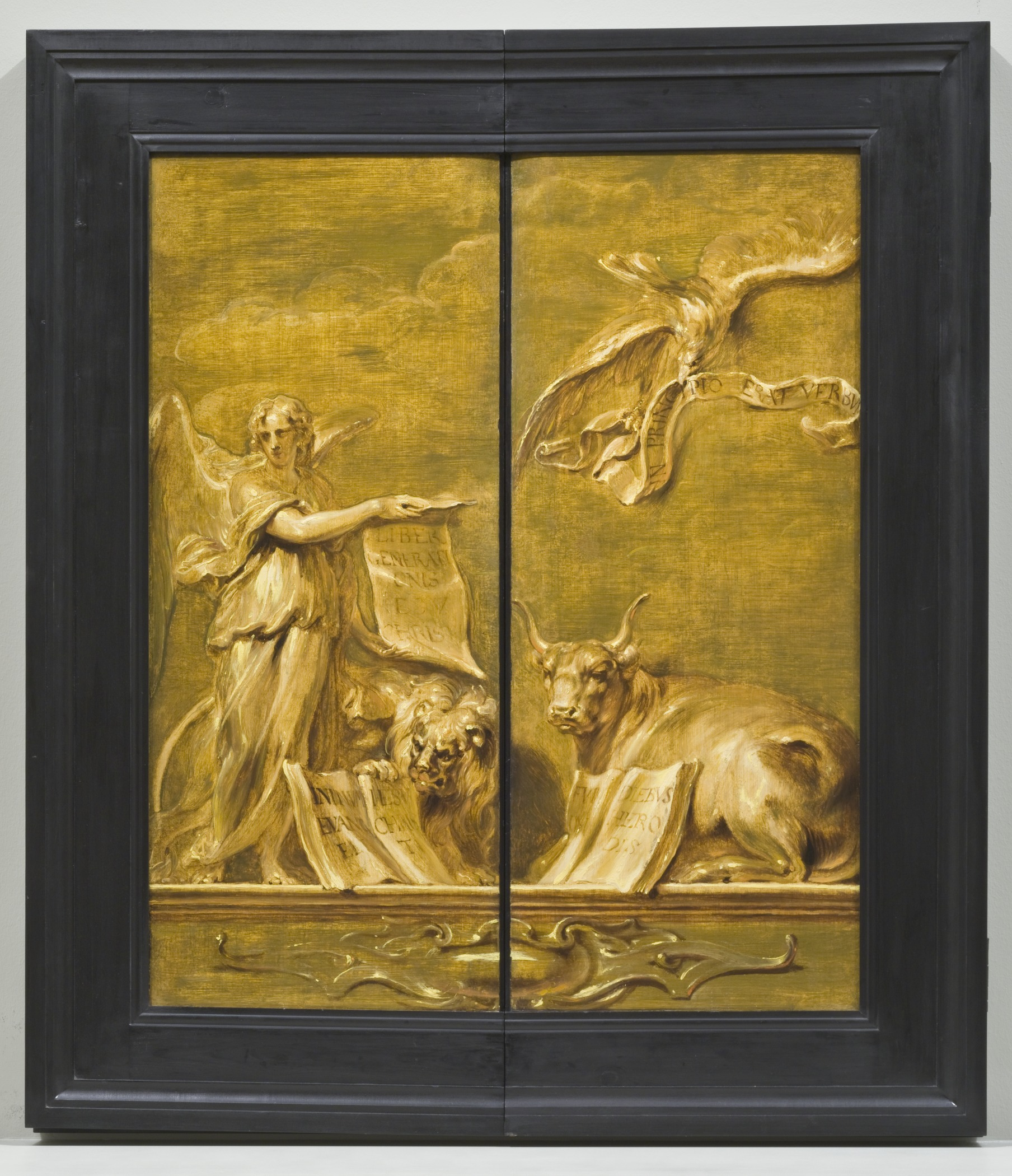 circa 1659 Paintings Oil on wood Gift of The Ahmanson Foundation (M.2008.90a-c) European Painting Currently on public view: Ahmanson Building, floor 3